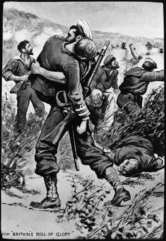 Victoria Cross Winners- Pre 1914 Photograph of a lithograph of Samuel Mitchell, awarded the Victoria Cross: HMS HARRIER, New Zealand, 29 April 1864.